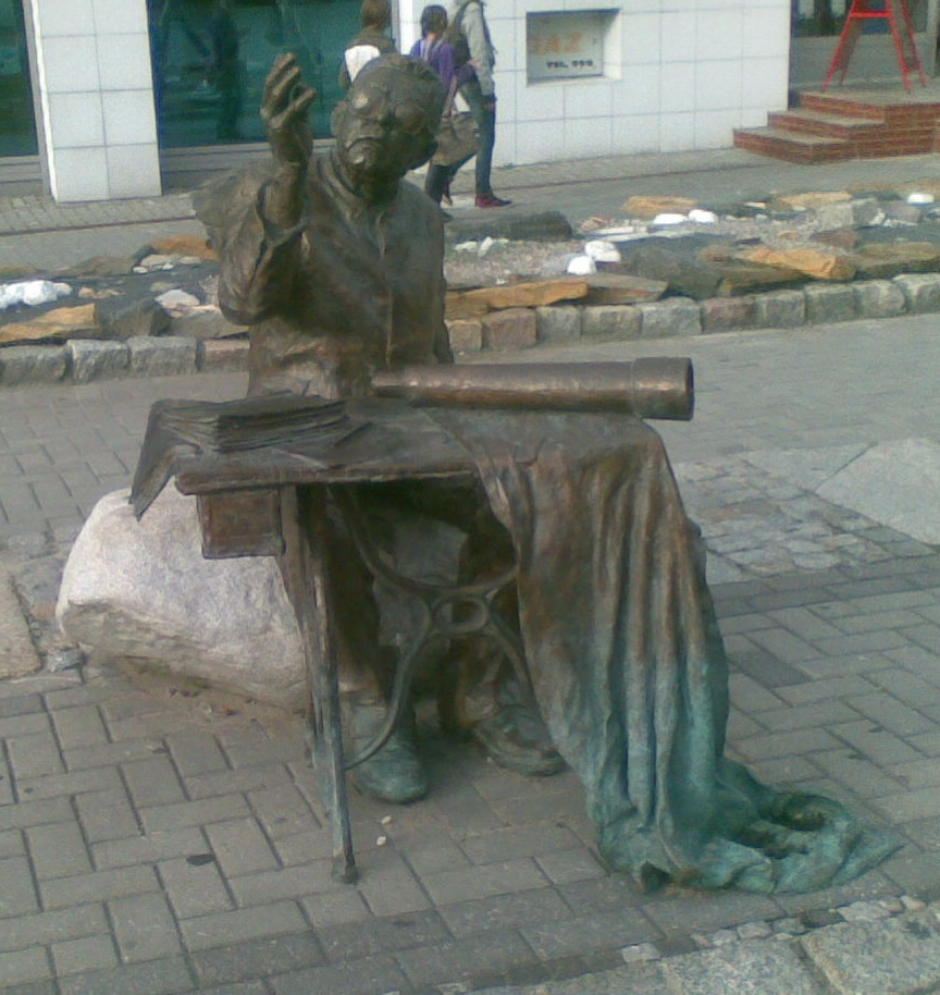 The monument of Adam Giedrys located in Szczecinek